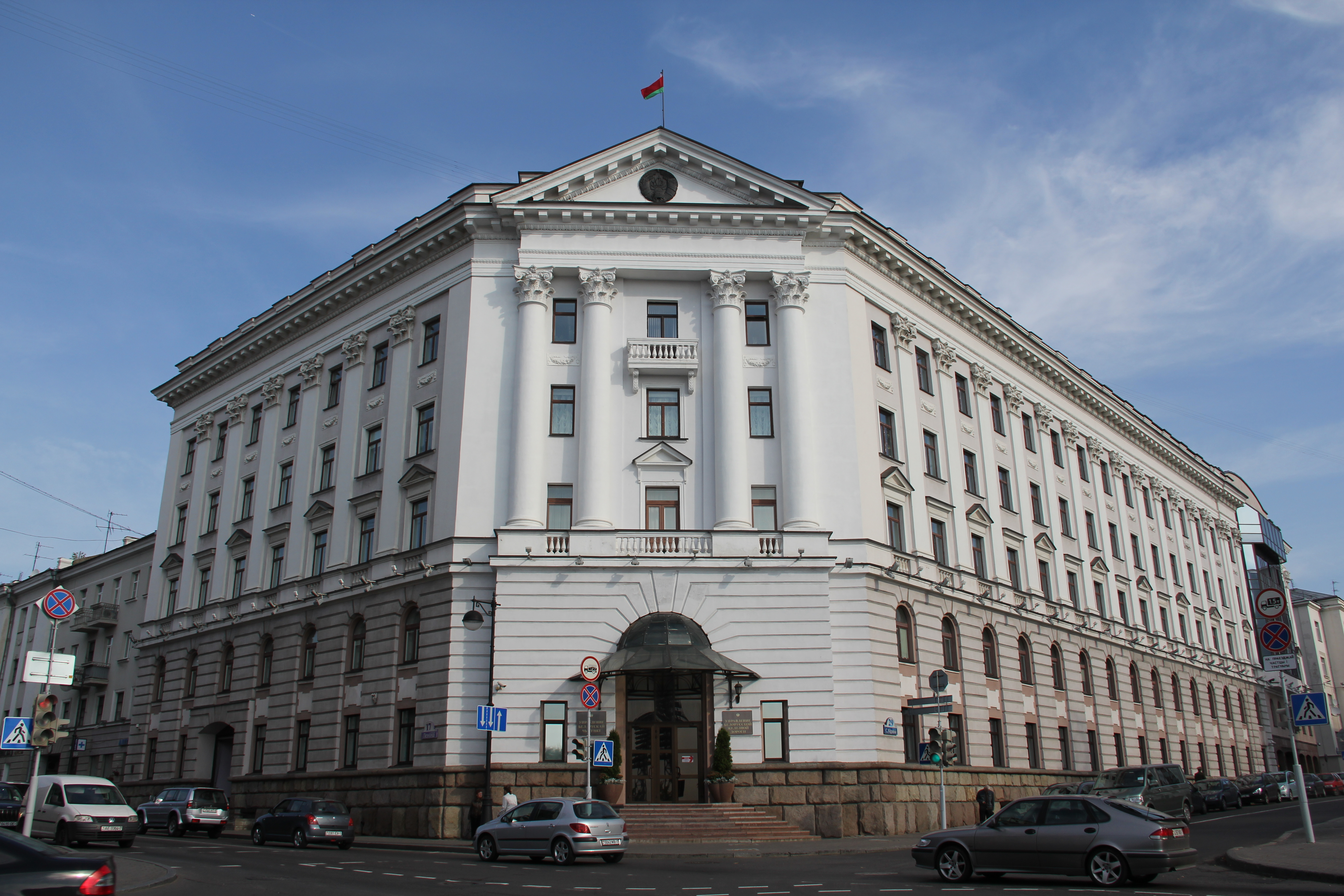 Беларуская (тарашкевіца): Будынак. г. Менск This is a photo of Belarusian heritage monument. Reference number: 713Г000078 ( WLM)